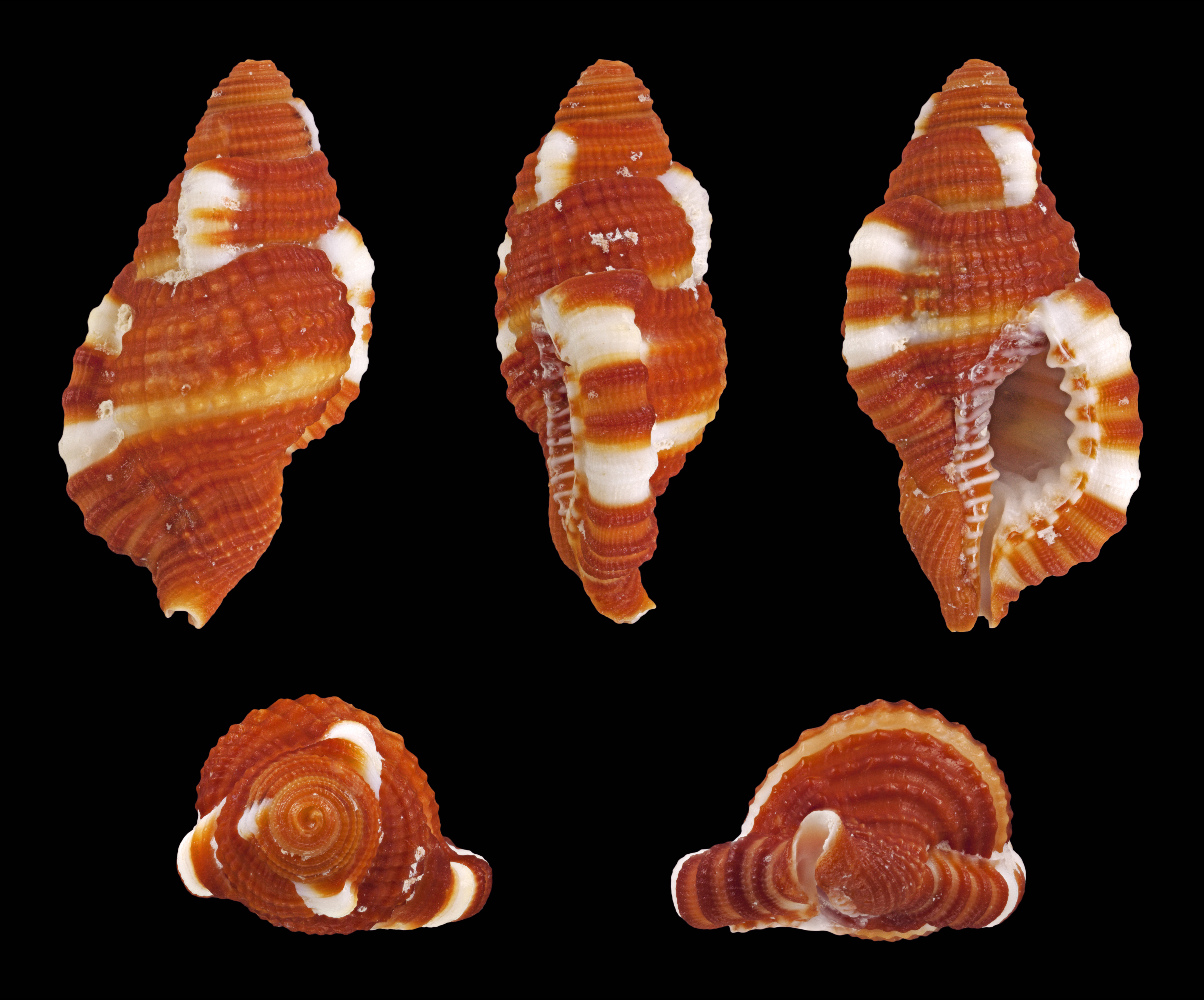 Red Triton; Length 3.6 cm; Originating from Bohol, Philippines; Shell of own collection, therefore not geocoded. Dorsal, lateral (right side), ventral, back, and front view.